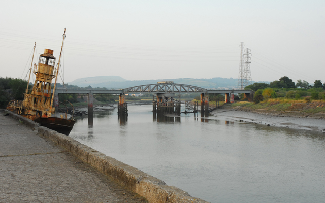 Swingbridge over the River Neath